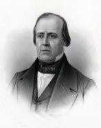 Jehu Glancy Jones, US Representative from Pennsylvania